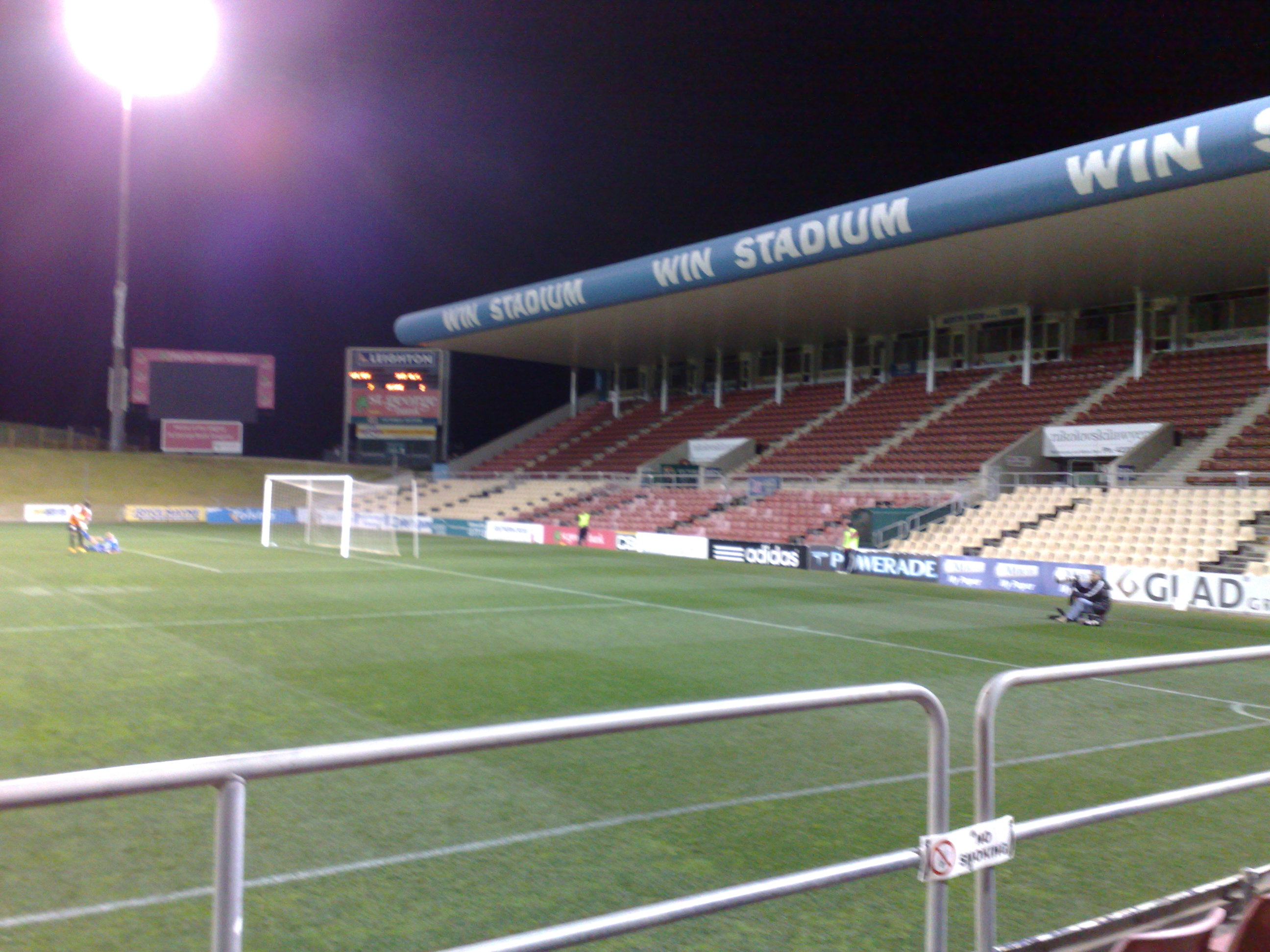 Photo of WIN Stadium